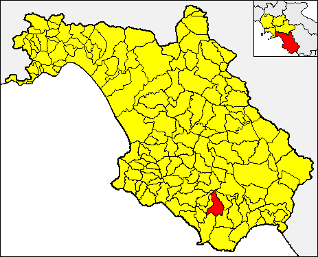 Locator map of the municipality of Montano Antilia (red) within the Province of Salerno